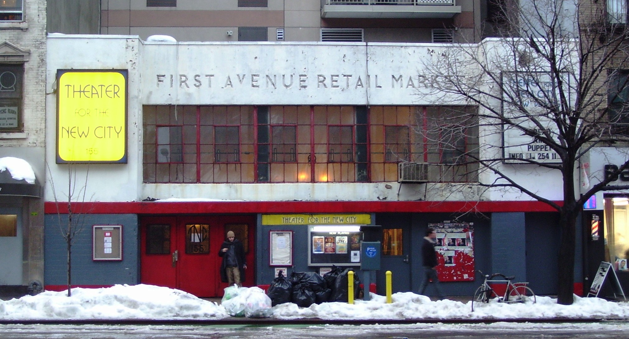 The avant-garde Theater for the New City was founded in 1971, and since 1986 has been located in the former First Avenue Retail Market at 155 First Avenue, between 9th and 10th Streets in the East Village neighborhood of Manhattan, New York City. The building was constructed c.1935, along with other neighborhood retail markets, after Mayor Laguardia decided to get pushcarts off the streets. (They were banned as of December 1, 1938.)